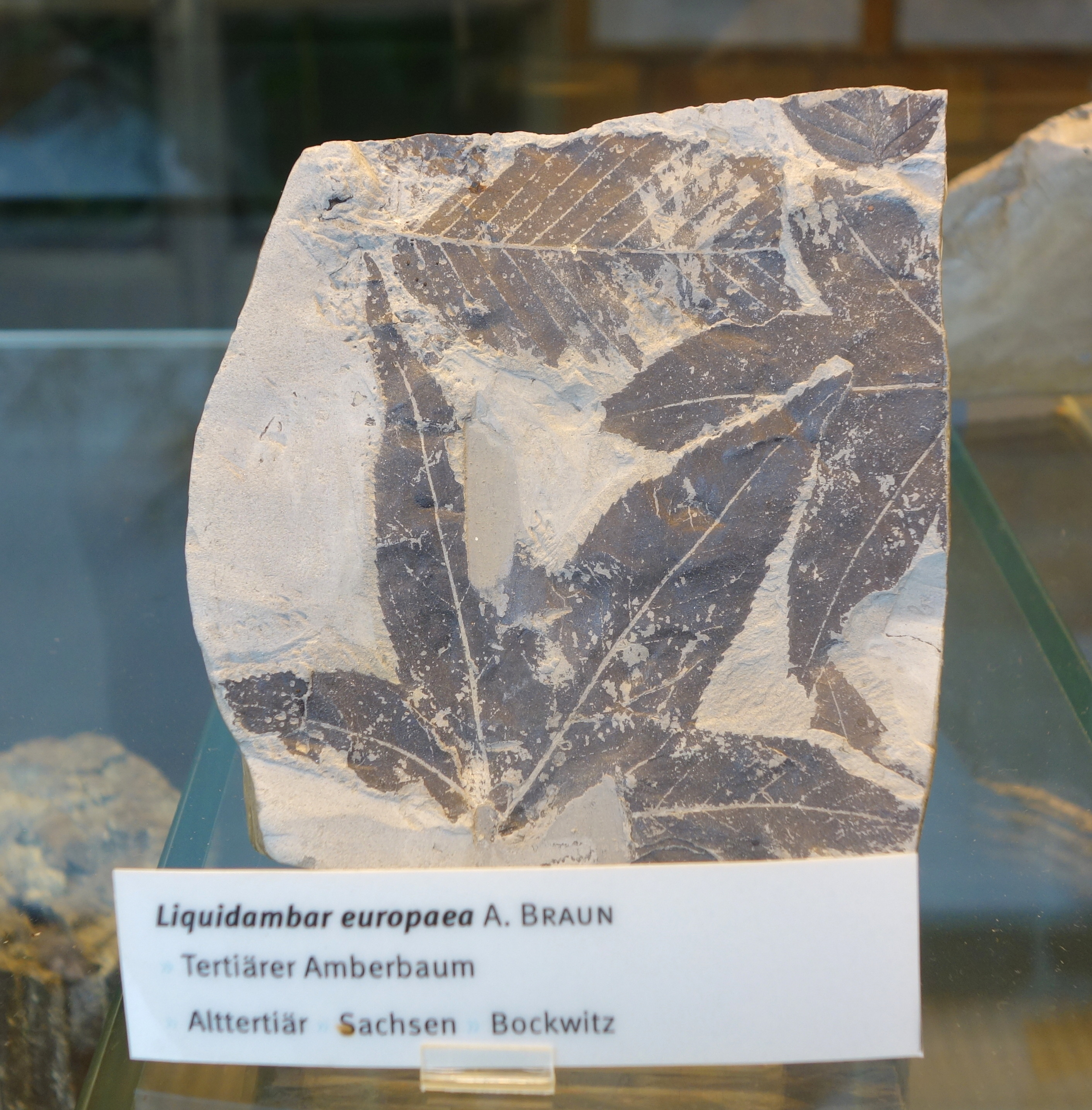 Fossil specimen in the Botanischer Garten, Dresden, Germany. Photography was permitted in the botanical garden without restriction.